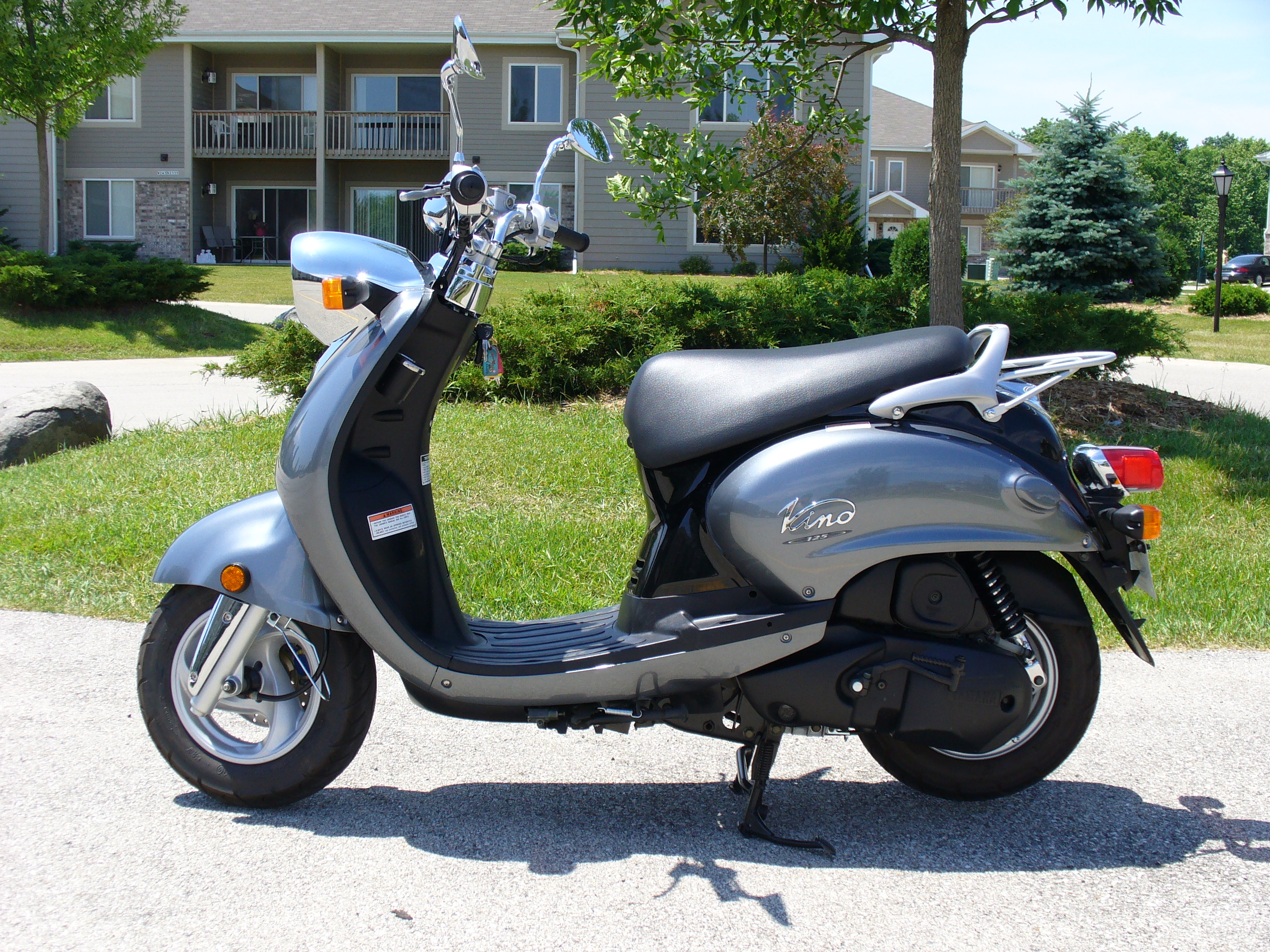 2006 Yamaha Vino 125 in Silver.